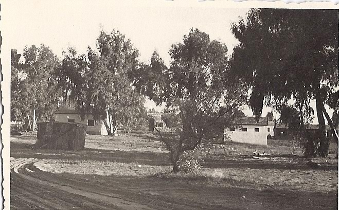 Kibbutz Nir Eliyahu , Architecture of Israel